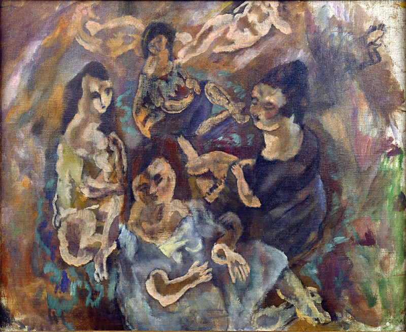 Les petites américaines (Les Demoiselles américaines) (Little American Girls (The American Girls) Jules Pascin, Etats-Unis 1916